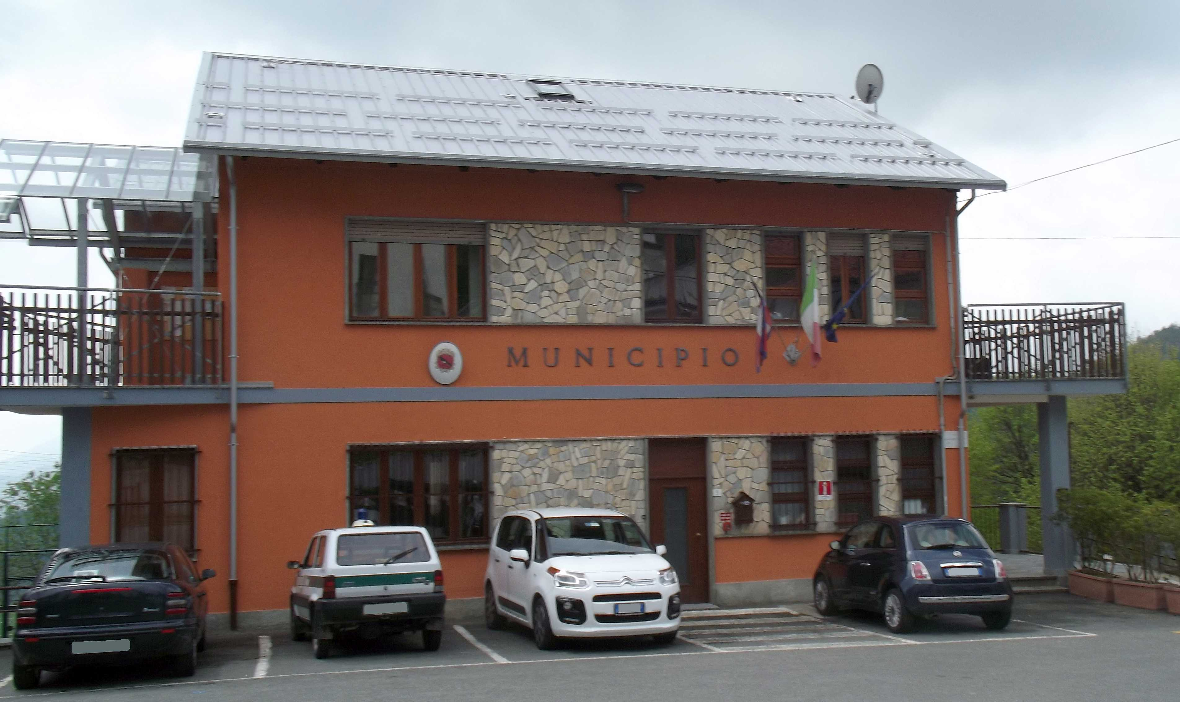 Valgioie (TO, Italy): town hall